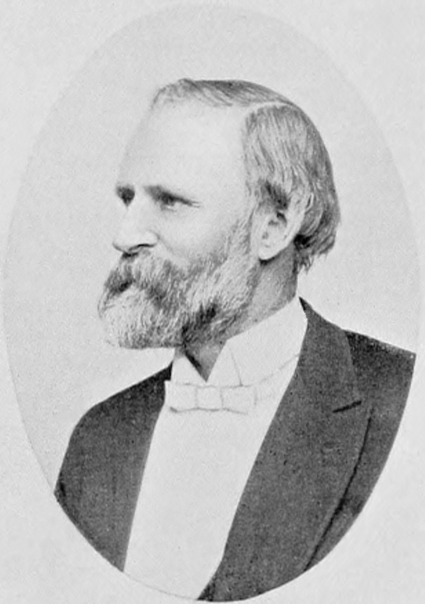 Ullery, Jacob G. (1894), Men of Vermont: An Illustrated Biographical History of Vermonters and Sons of Vermont, Brattleboro, Vermont: Transcript Publishing Company, p. Page 141 (Sons of Vermont).